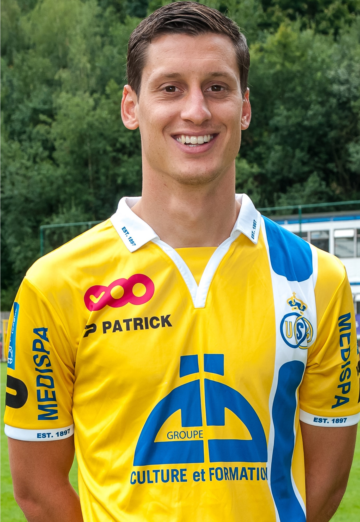 Cocchiere in Royale Union Saint-Gilloise shirt